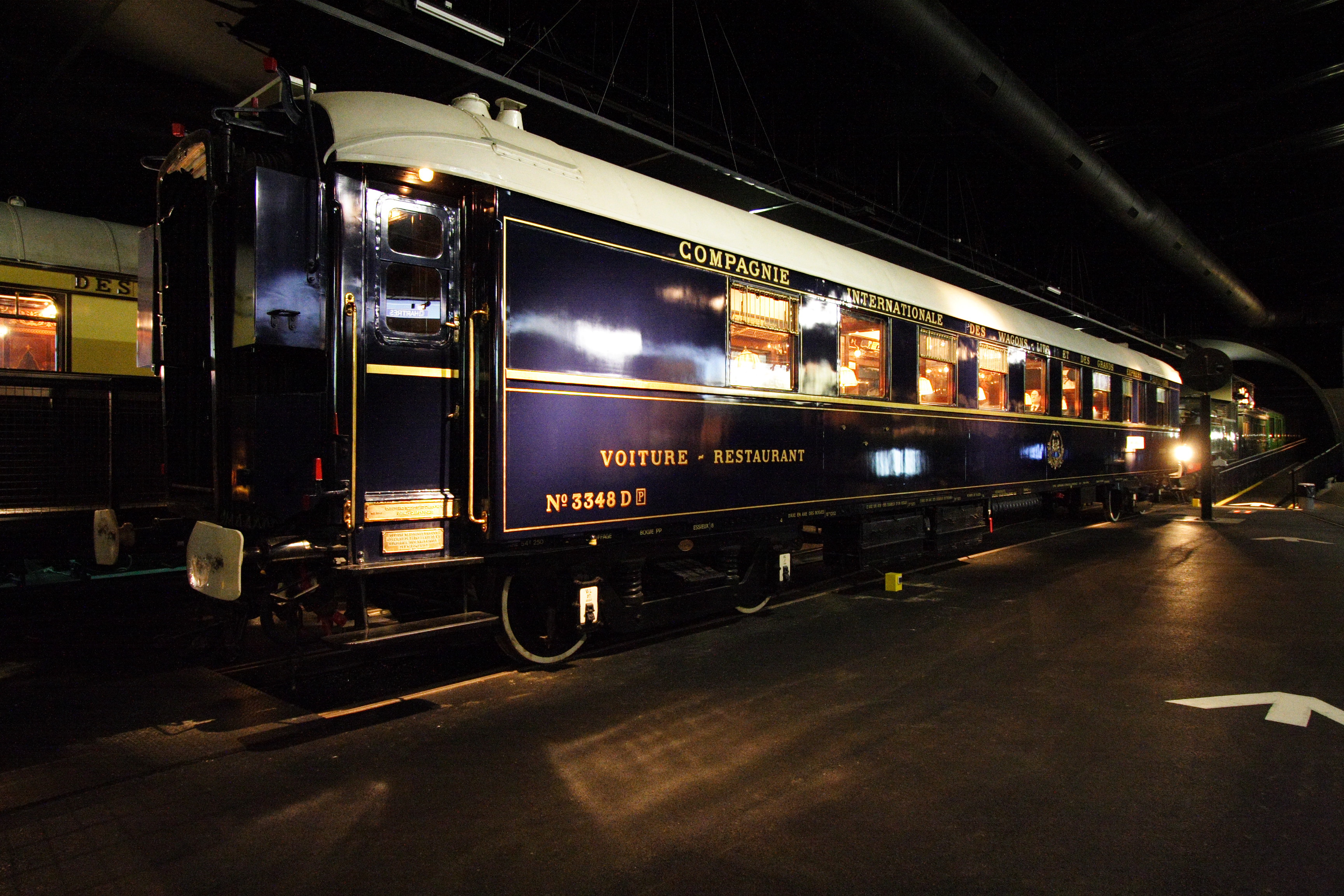 a dining car 3348 by CIWL at the Cité du Train de Mulhouse(Mulhouse, France)